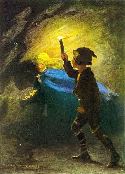 From The Princess and the Goblin by George MacDonald, illustrated by Jessie Willcox Smith, 1920